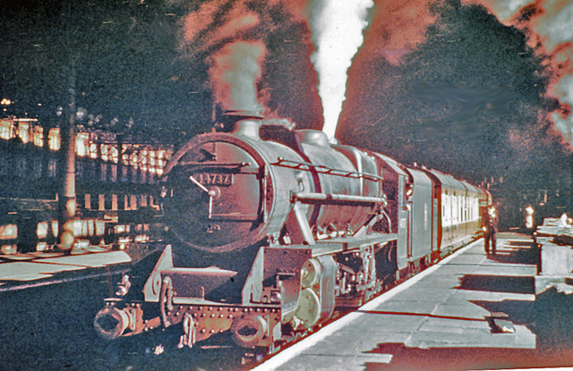 Liverpool Exchange Station, with an express. View southward, towards buffer-stops, with a Stanier (later series) Class 5 4-6-0 on an express for Blackpool. [This is from one of my earliest colour-slides, hence colours are not quite right].